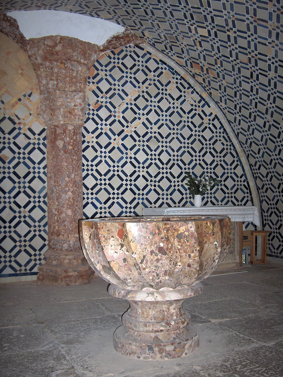 Baptismal font of the Jesus church(Igreja de Jesus); Setúbal, Portugal